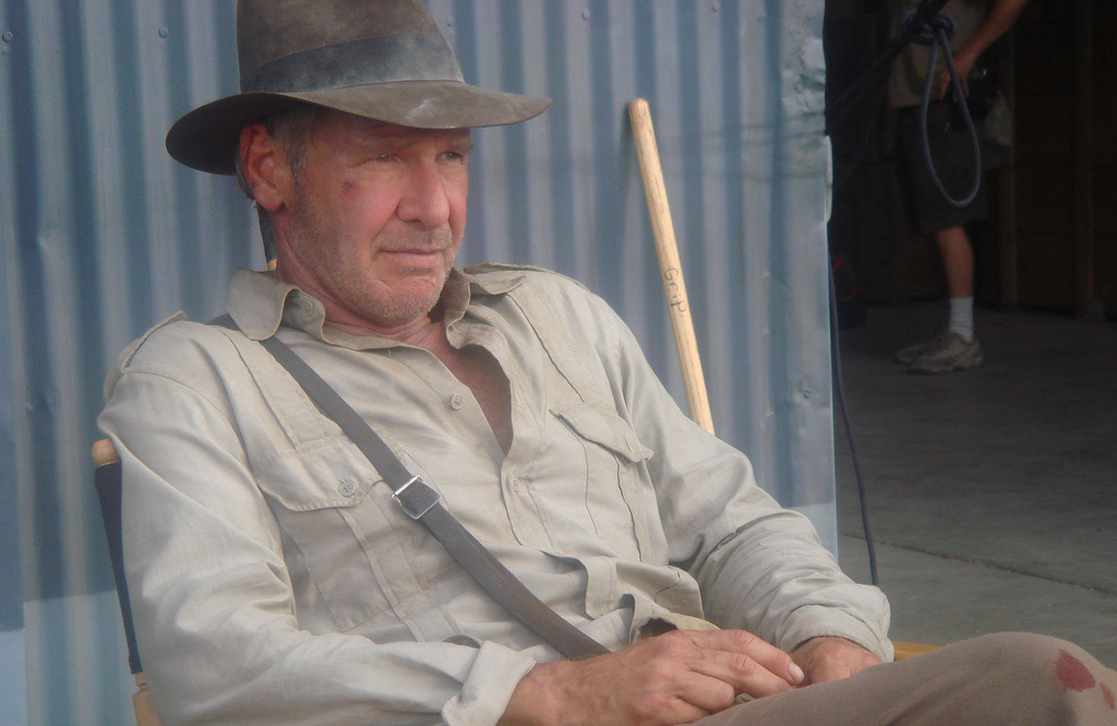 First shot of Indiana Jones on the set of part 4